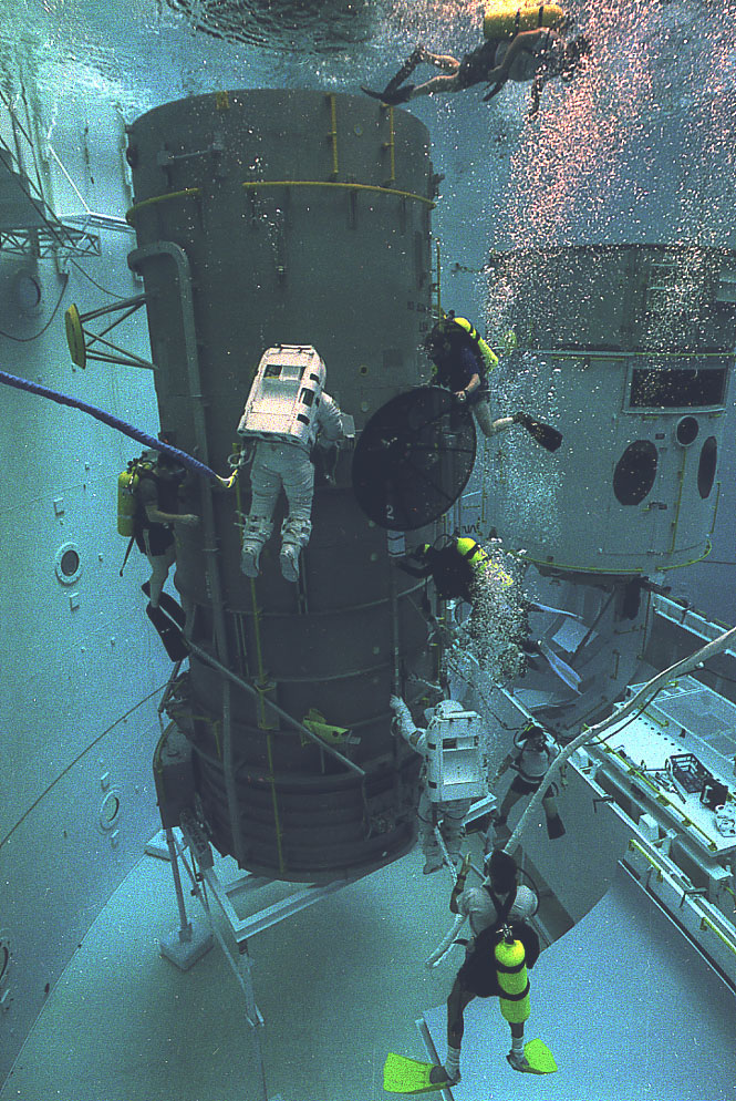 Underwater training is conducted in Marshall's Neutral Buoyancy Simulator (NBS) in preparation for on-orbit Hubble Space Telescope operations.